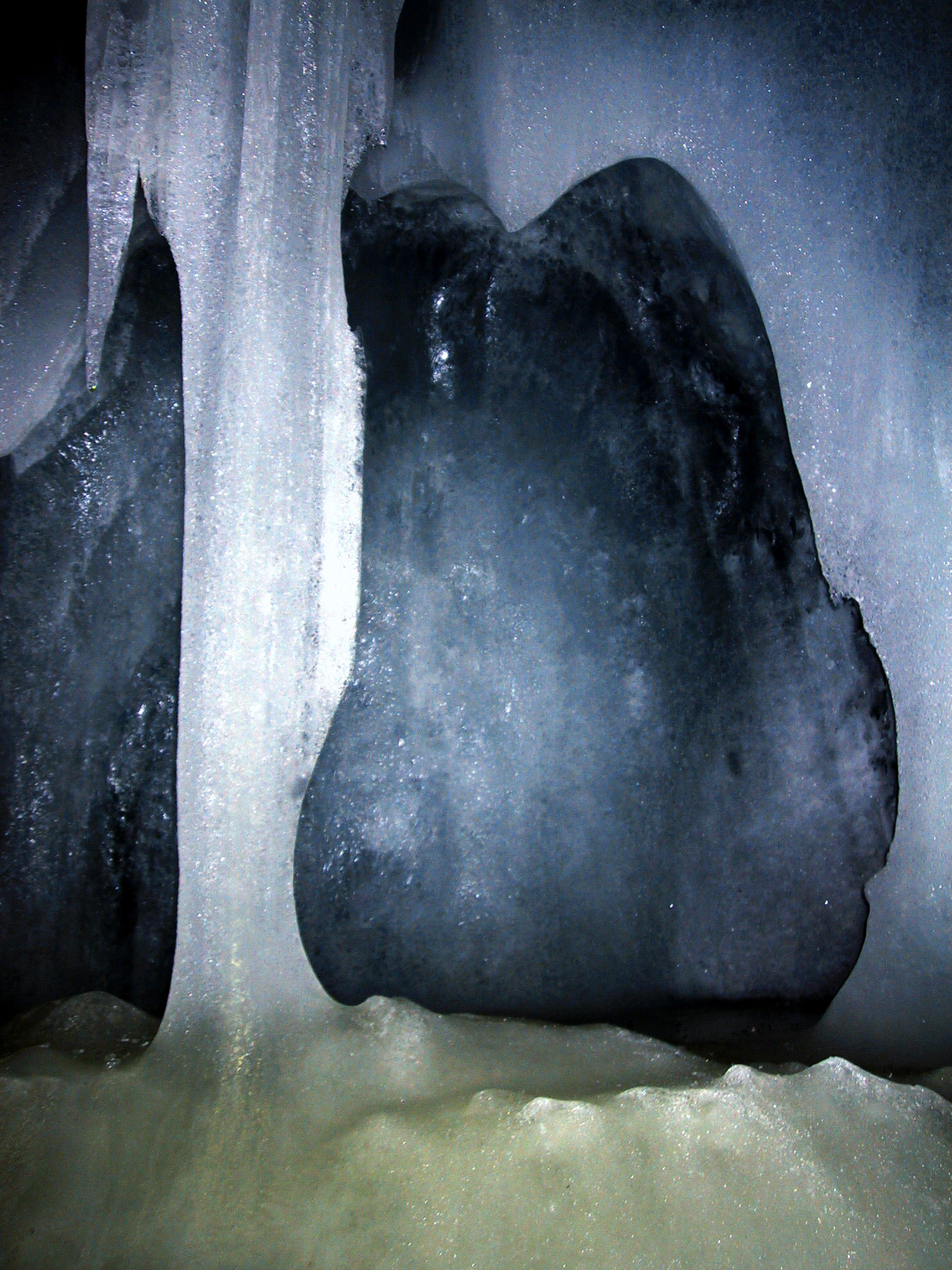 Eisriesenwelt, the biggest ice-cave of the world, near Werfen in Austria